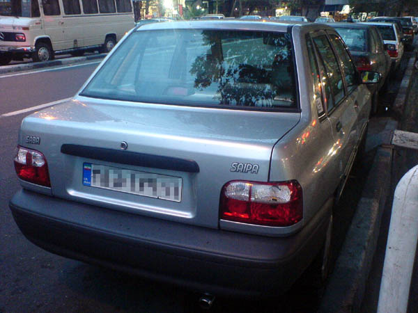 Saipa Saba (same as Kia Pride sedan) a car made in Iran.